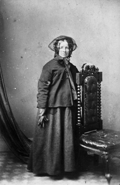 London Portrait Rooms (Dunedin, N.Z.). Eliza Wohlers. Natusch, Sheila Ellen, 1926- :Photographs of Southland families and carte de visite albums. Ref: 1/2-066198-F. Alexander Turnbull Library, Wellington, New Zealand.